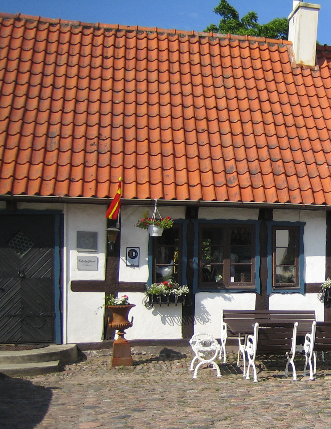 Tunneberga inn in Jonstorp, northwest Scania, Sweden